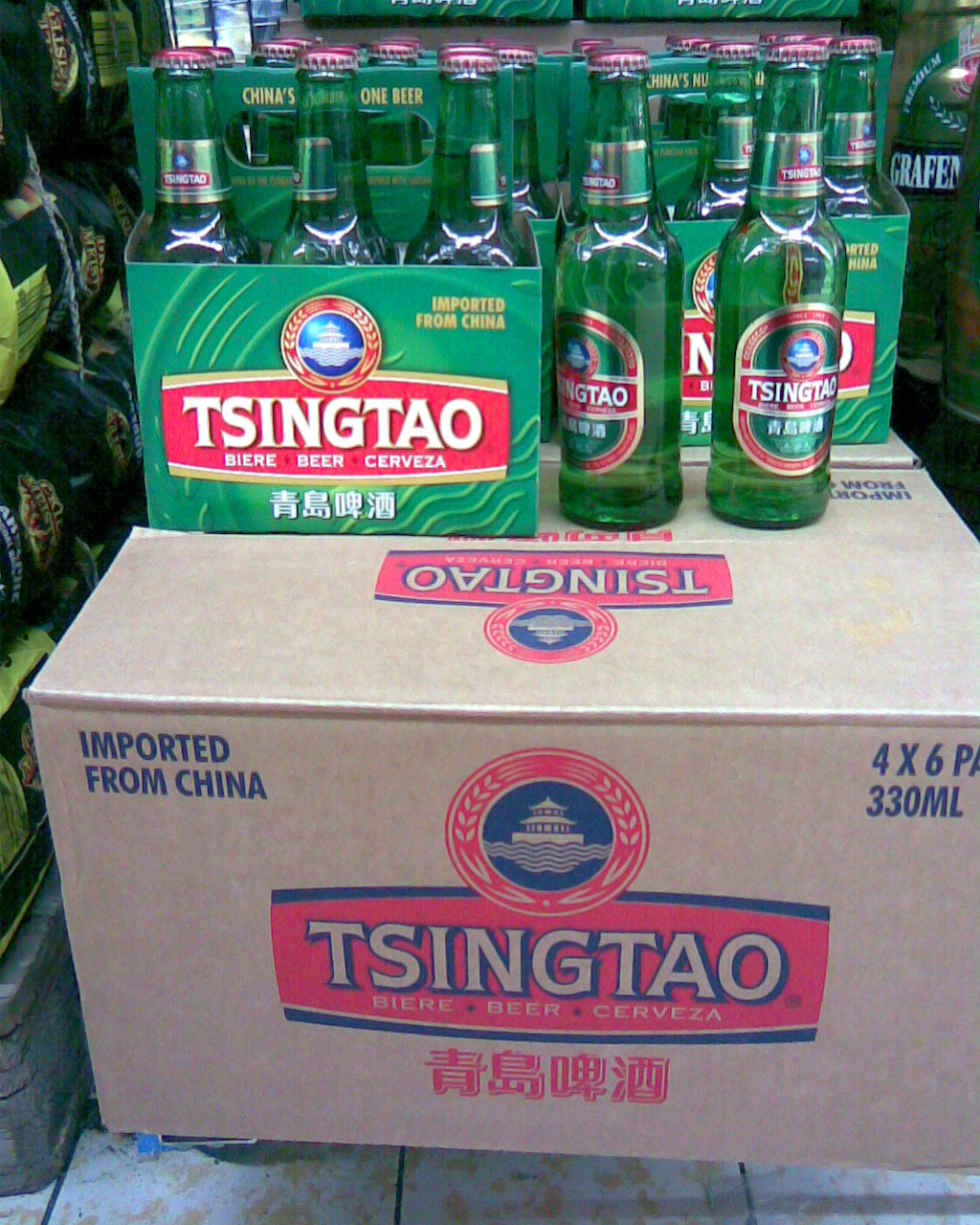 Tsingtao beer offered in the Czech Republic